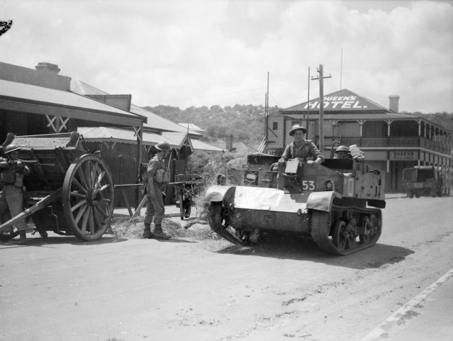 Troops from the 4th Division exercising around Geraldton, October 1942. The 4th Division was allocated as an "enemy" force for the Australian Army to practice defensive operations